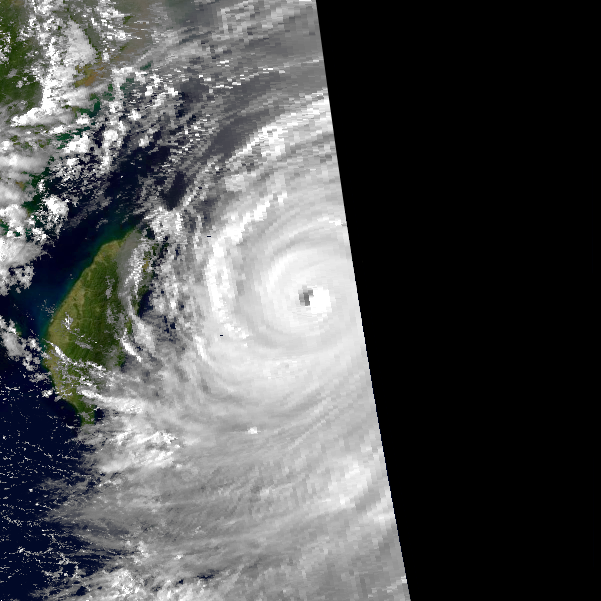 Typhoon Fred shortly after peak intensity on August 19th.